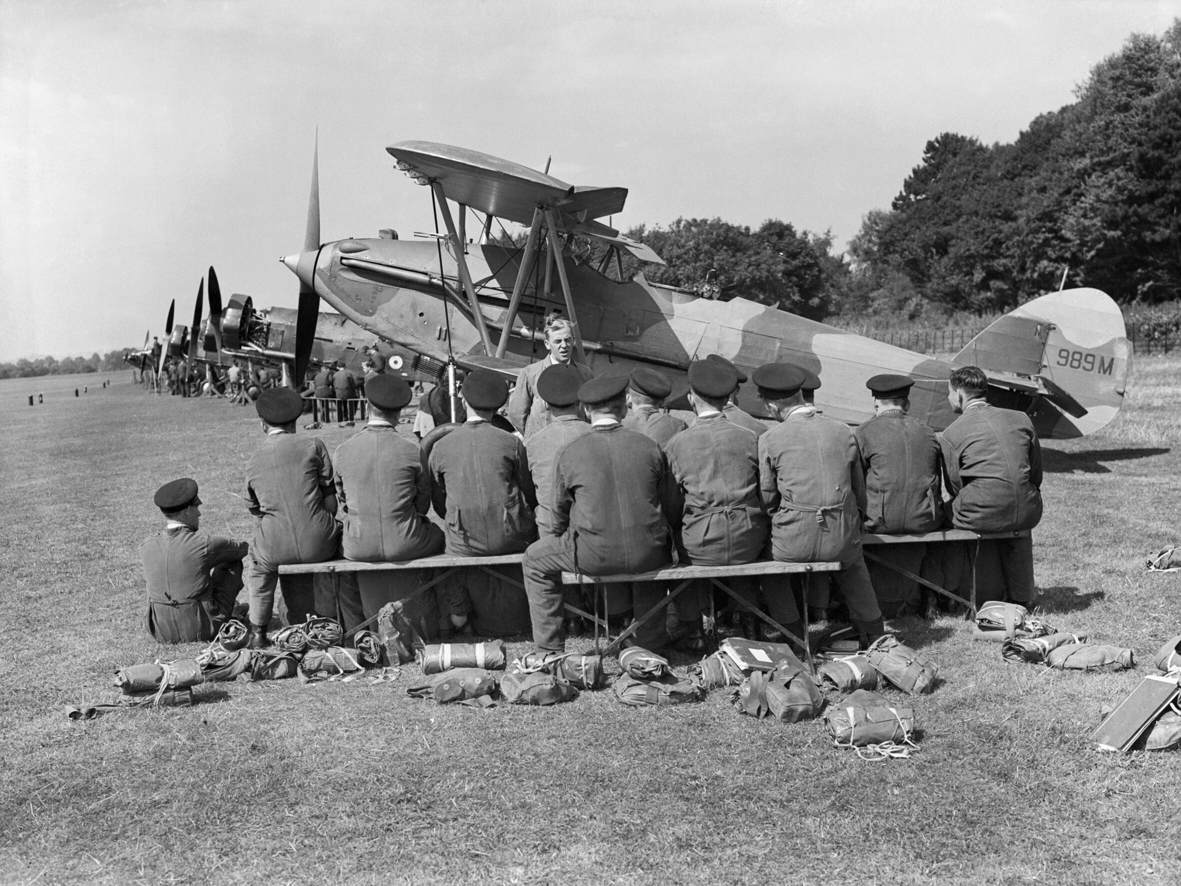 Royal Air Force Technical Training Command, 1940-1945. Aircraft apprentices of No. 1 School of Technical Training listen to a lecture on servicing aircraft in the field, in front of a line of instructional airframes on the airfield at Halton, Buckinghamshire. 989M is a Hawker Audax Mark I, formerly K3057 of No. 2 Squadron RAF, reduced to airframe status in 1937.